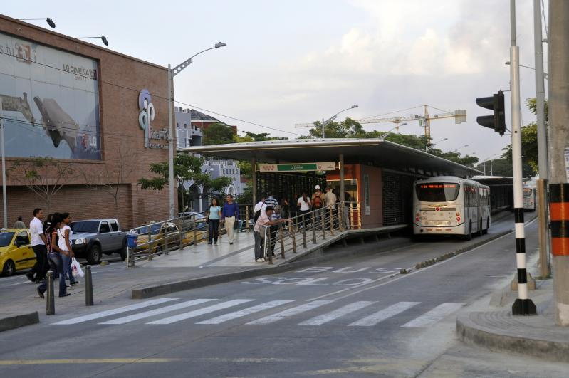 estación catedral